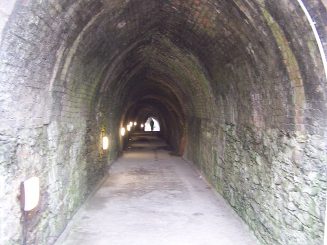 Entrance to the Tunnels Beaches These tunnels, a series of 4, were built by Welsh coal Miners in the 1820's to allow access to the beaches on the other side thus transforming Ilfracombe from a small fishing village into a popular seaside tourist resort